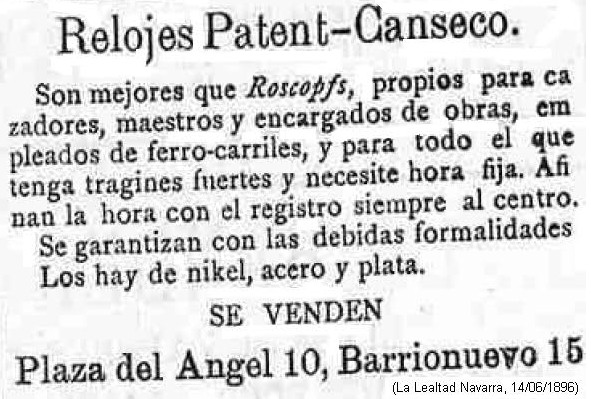 Announcement from "La Lealtad" (spanish newspapers), publicated in 1896/06/14.